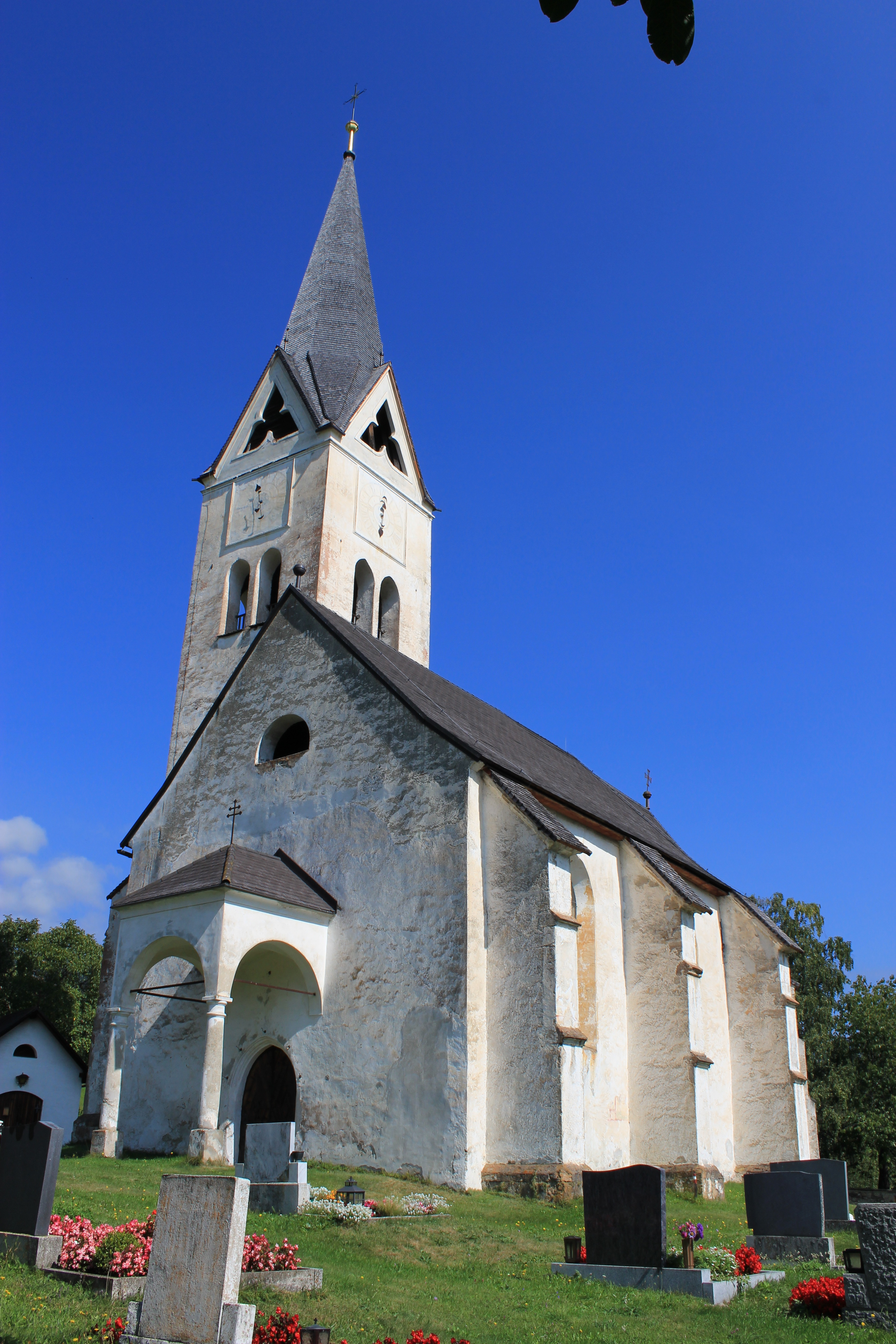 Church of Oberkreuschlach in the community ofGmünd - detail